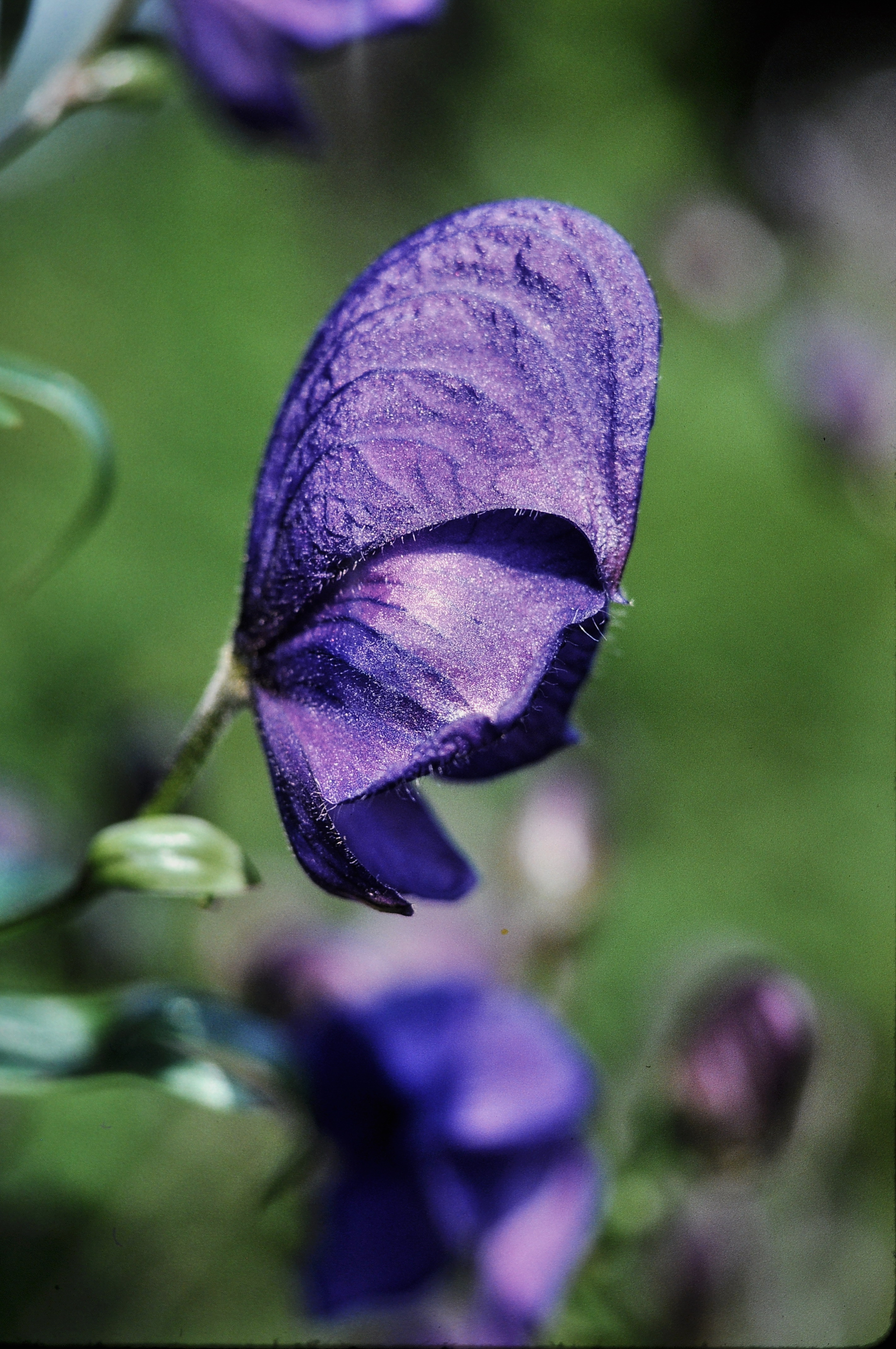 Monkshood